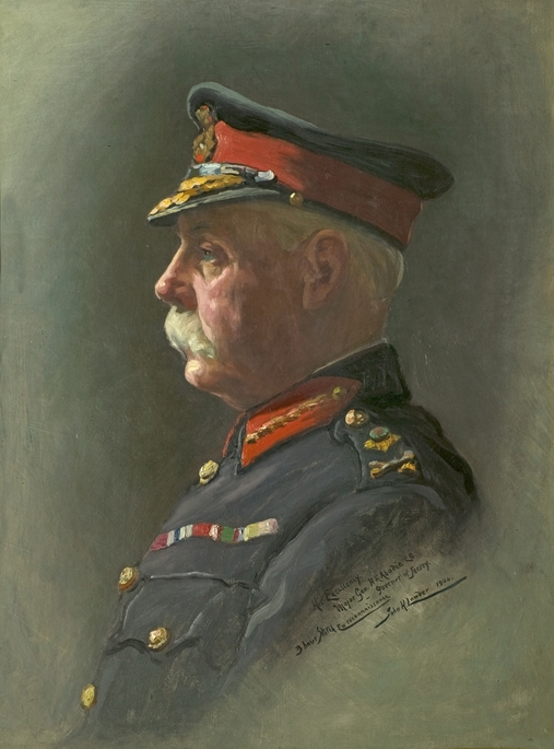 A 1904 portrait of Major General Henry Richard Abadie, who served as Lieutenant Governor of Jersey from 1900-1904.